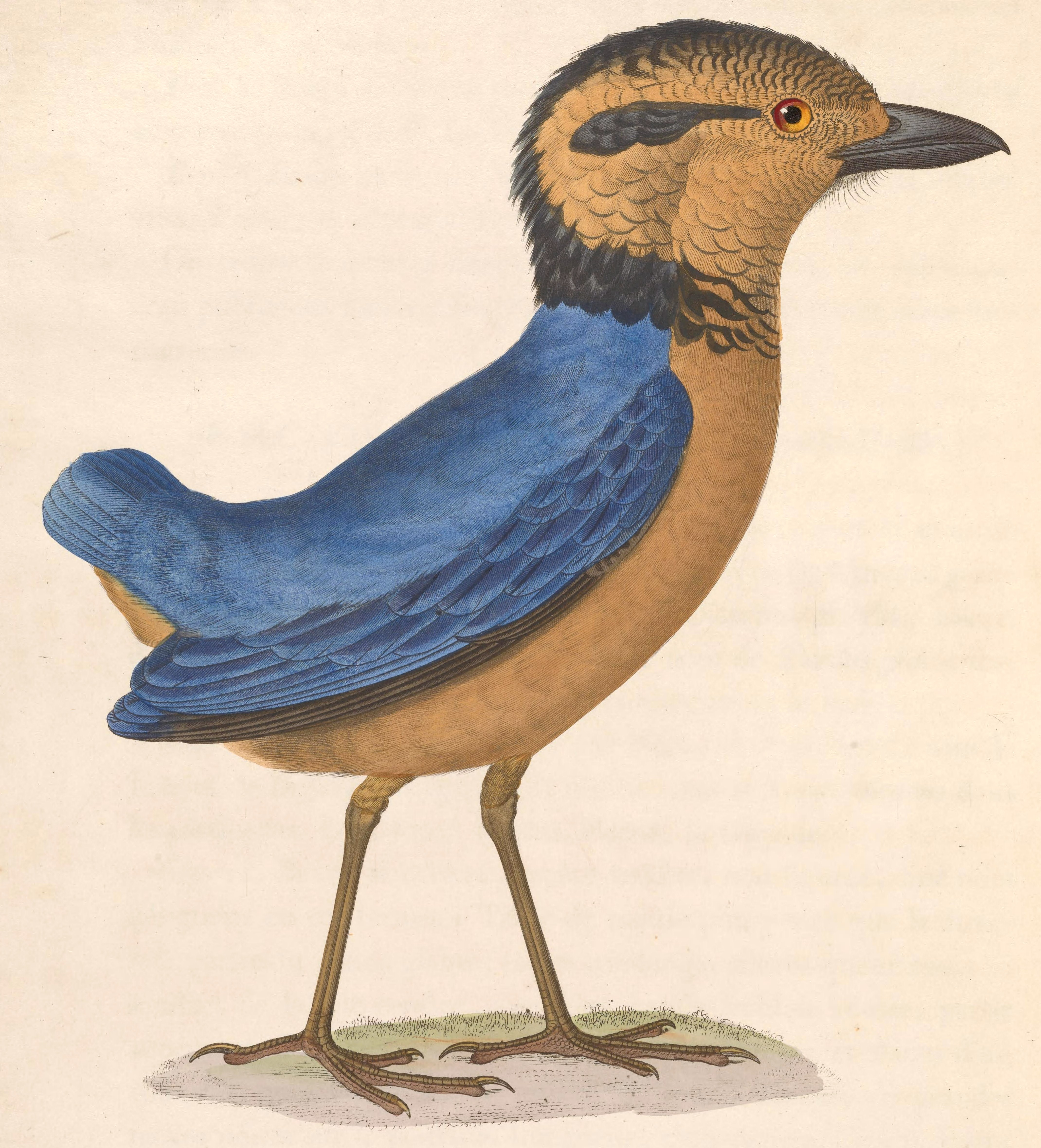 « Pitta gigas » = Hydrornis caeruleus (Giant Pitta) - adult